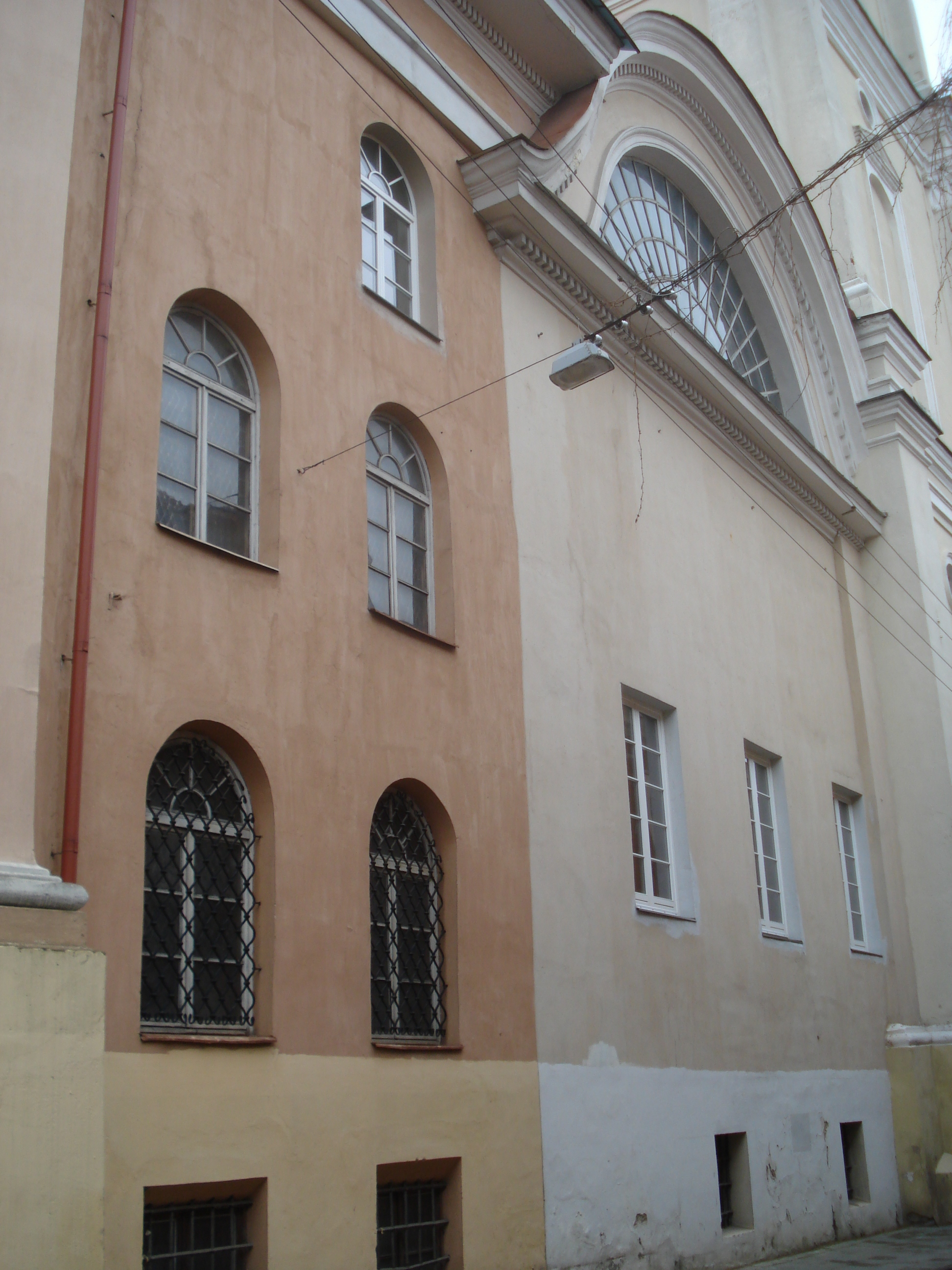 The building of Aula. Švento Jono g. 10